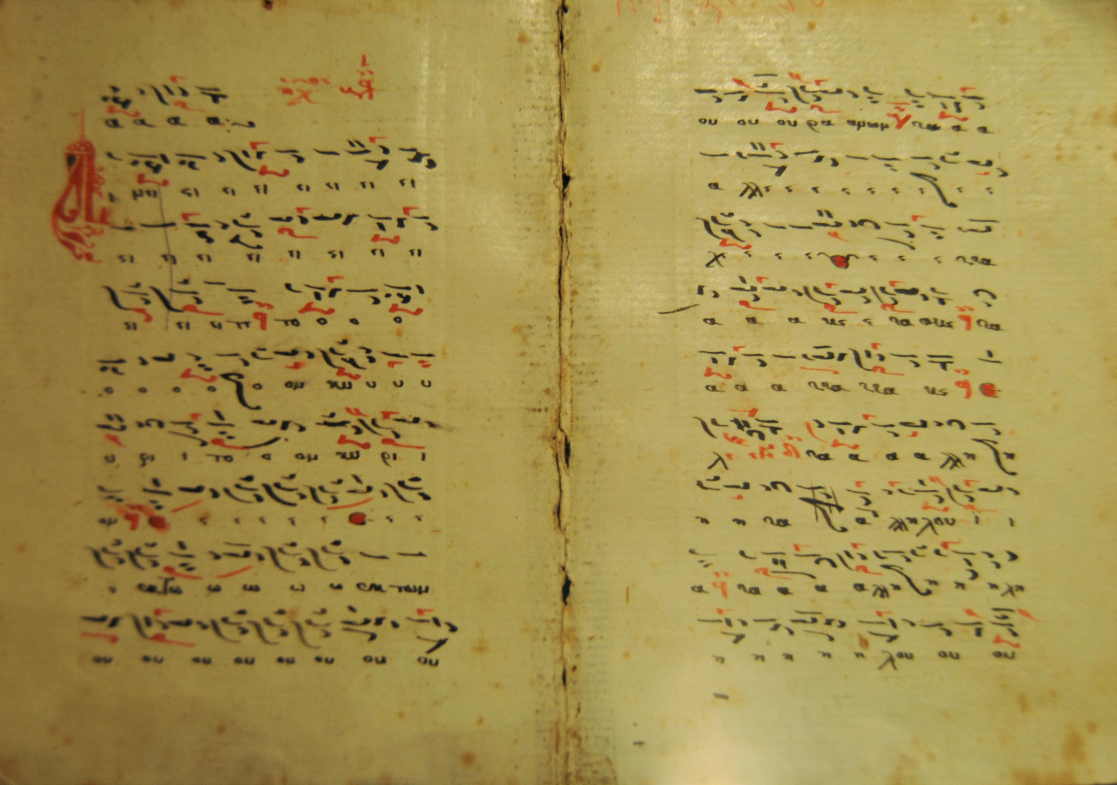 Neumes - medieval notes exhibited in the Museum in Smederevo. Printed in the 19th century